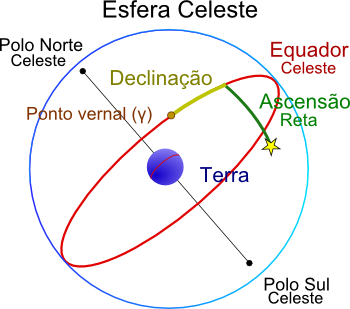 Simplistic Equatorial coordinate system representation. This vector image was created with Inkscape.